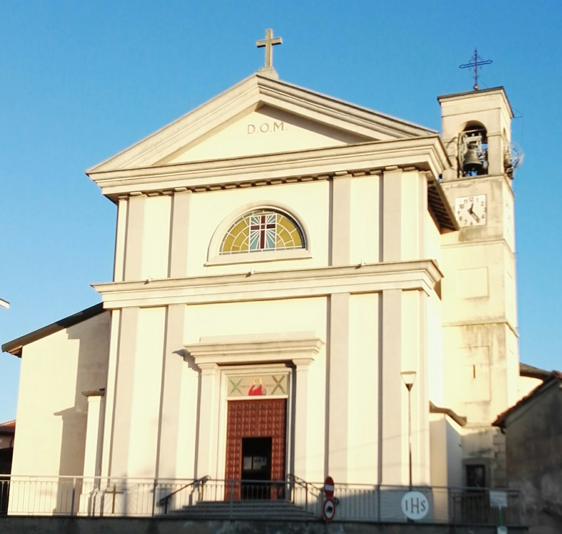 St. Andrew church in Montano Lucino